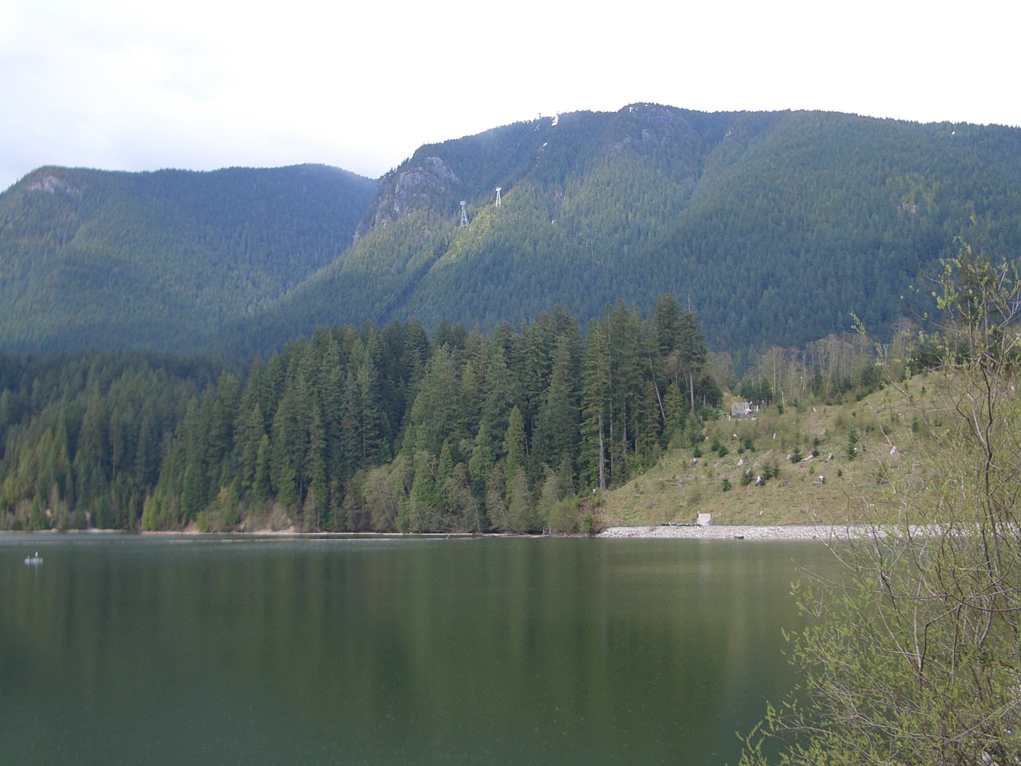 The south-western side of Grouse Mountain, with its cable car towers, seen from Capilano Lake (near the dam).